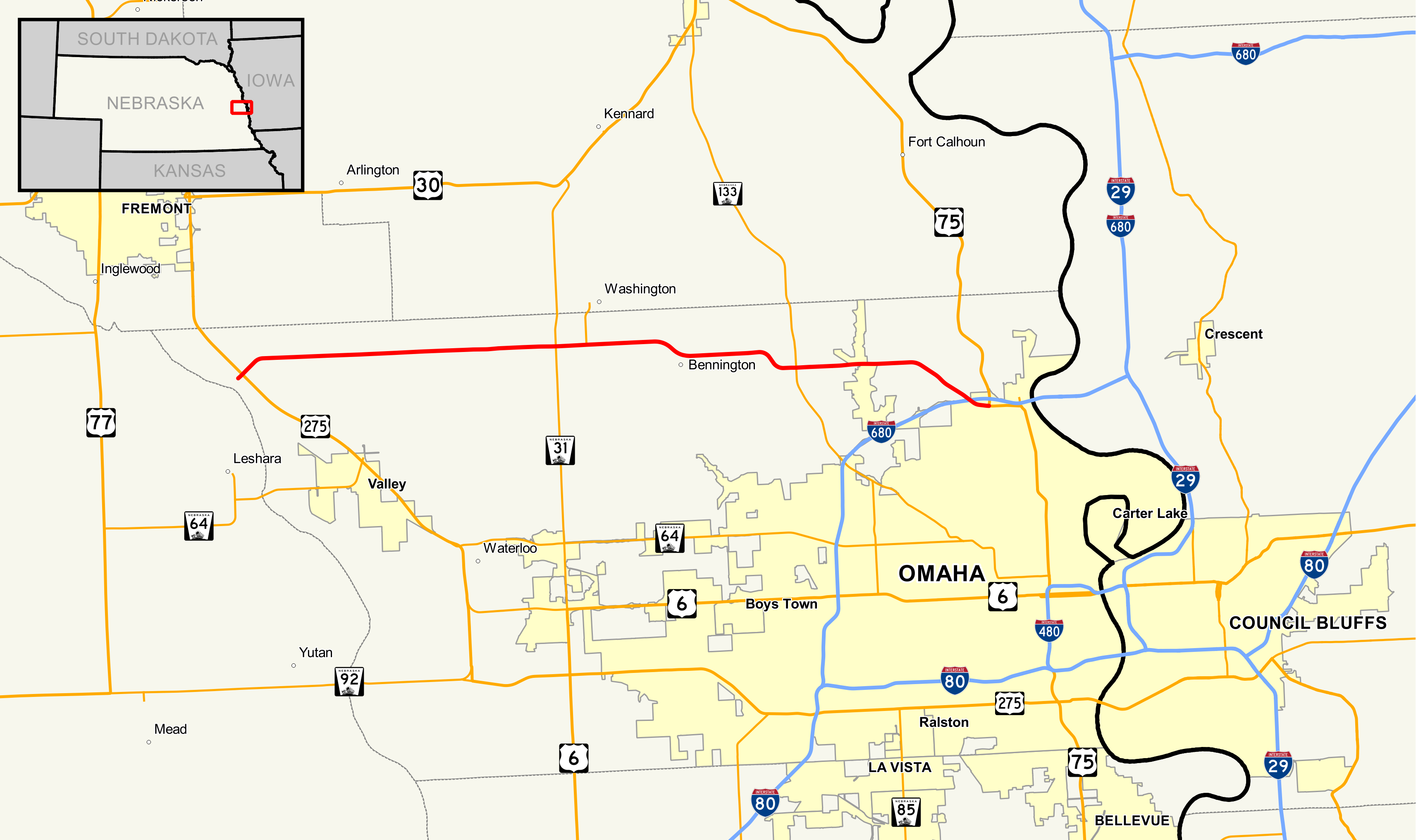 Map of Nebraska Highway 36 Data Sources: Nebraska Highways - - Dec 2016 Nebraska County Boundaries - - Dec 2016 Nebraska City Boundaries - - Dec 2016 This PNG graphic was created with QGIS